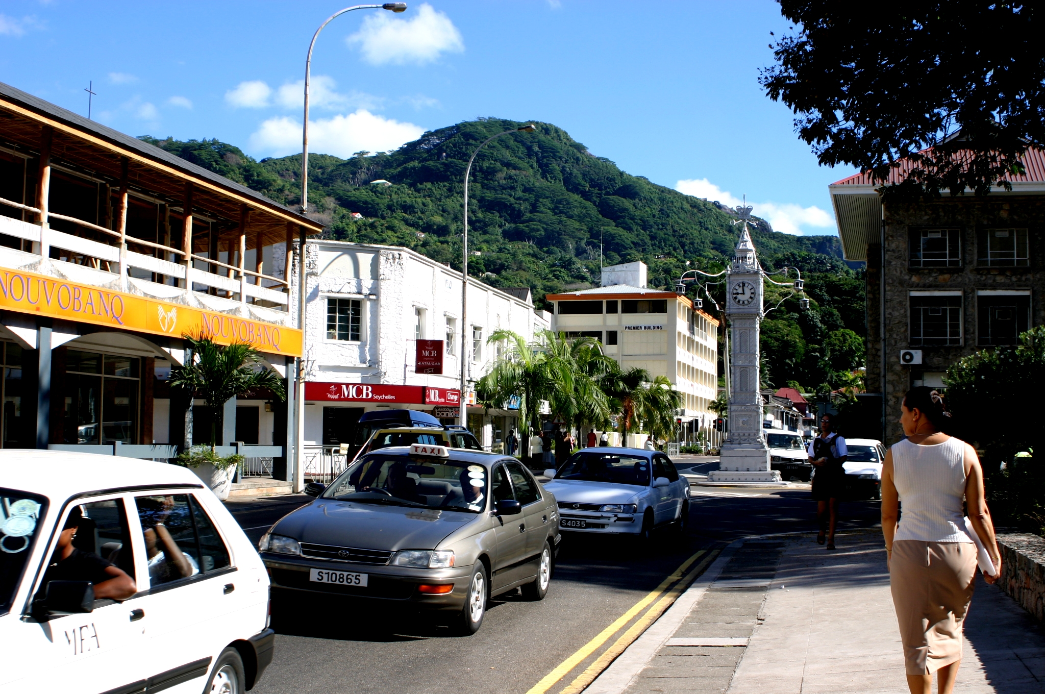 Mahé's capital, Victoria Photograped by Brocken Inaglory at Mahe Seychelles